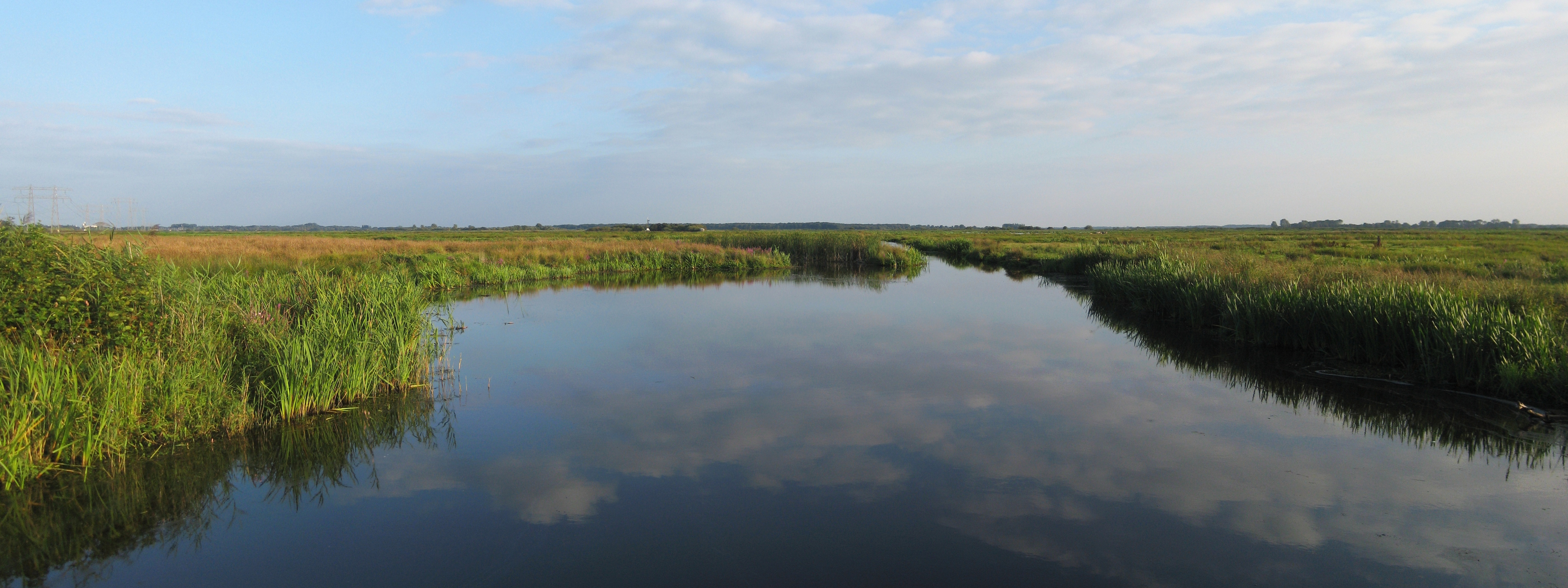 The Westerbroekstermadepolder, a polder and nature reserve in the Dutch province of Groningen.